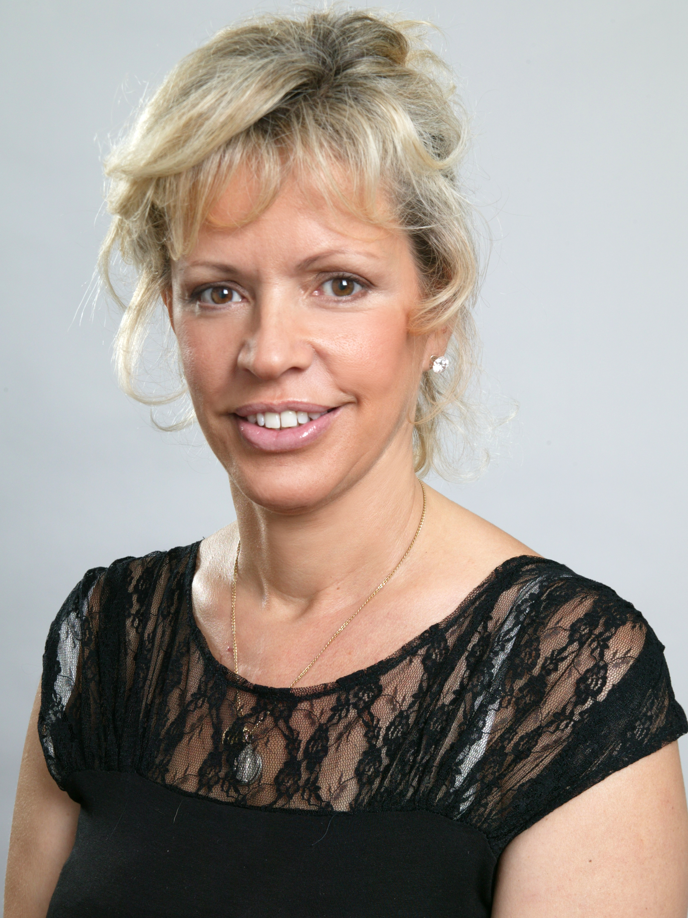 Catalina Parot, chilean lawyer.